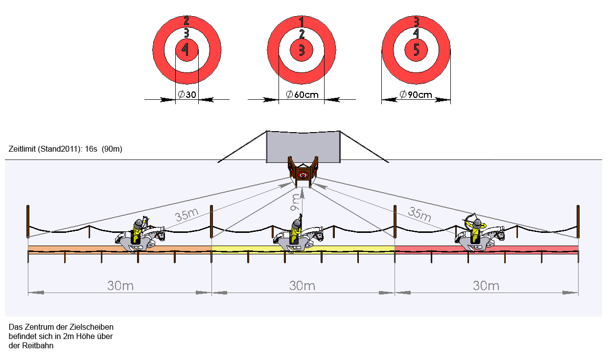 hungarian competition - German variety - horseback archery